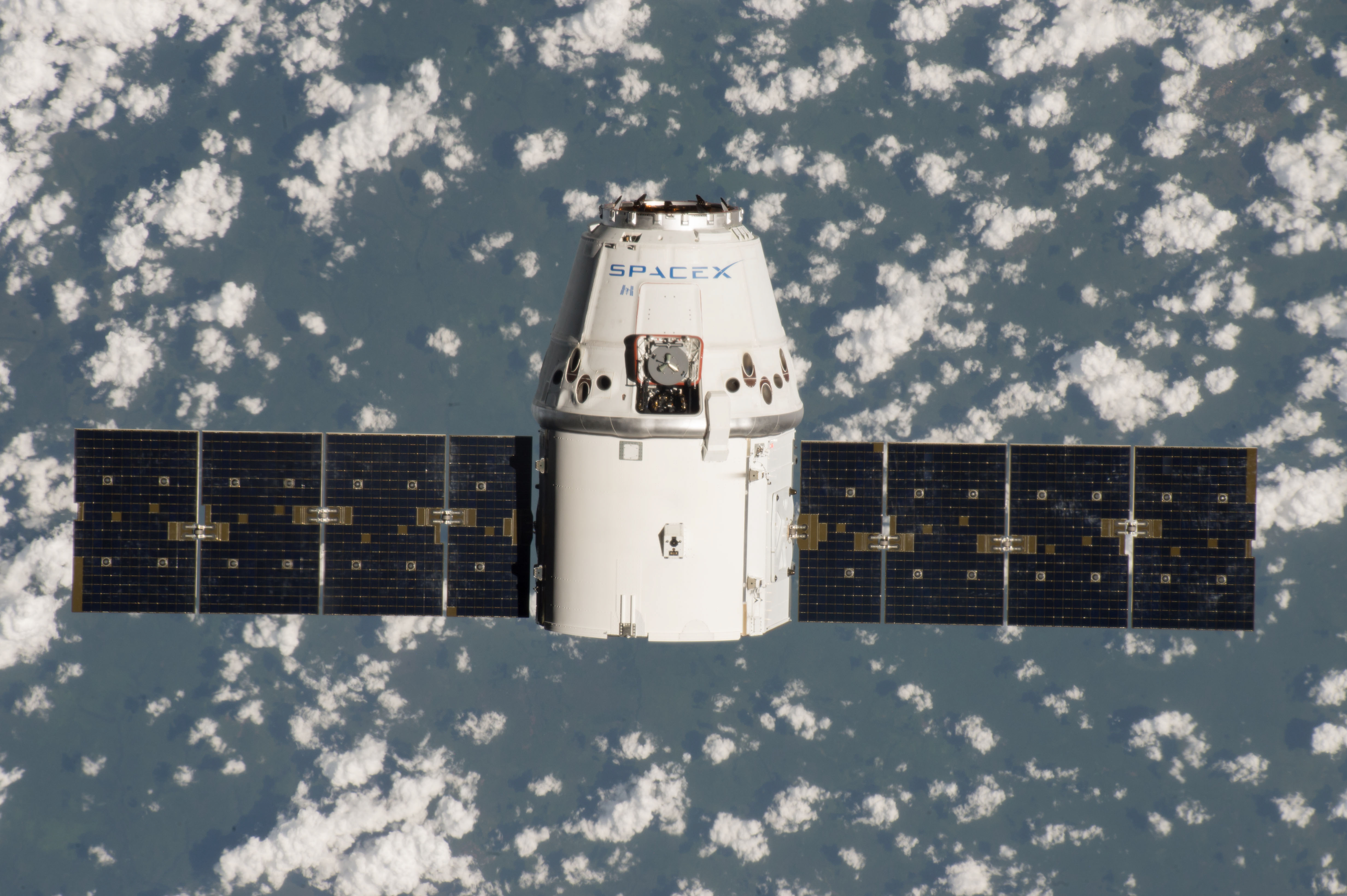 SpaceX CRS-11 Dragon approaching the ISS.